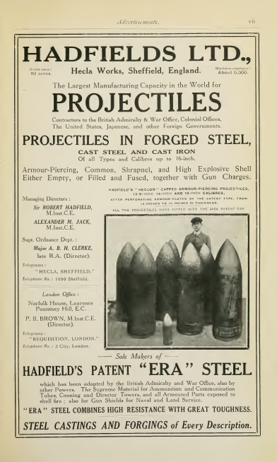 Advertisement for Hadfields Limited presenting their artillery shell production and "ERA" steel, in Brassey's Naval Annual 1915.